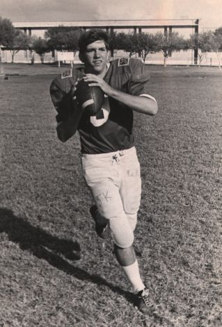 Pick taken for the school yearbook. Circa 1971.